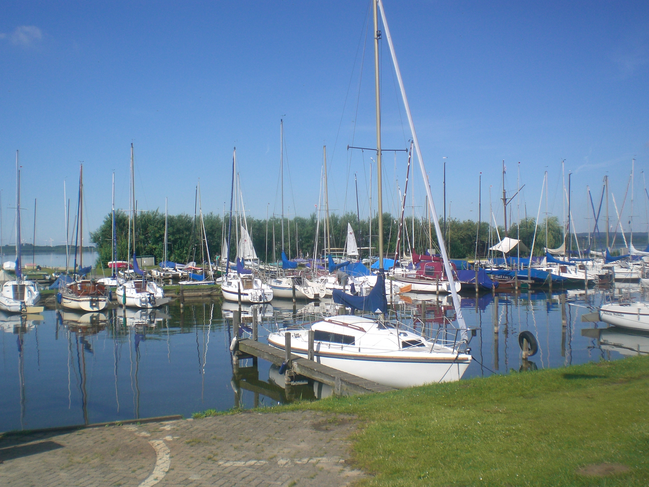 Marina at the lake Dümmer in northern Germany